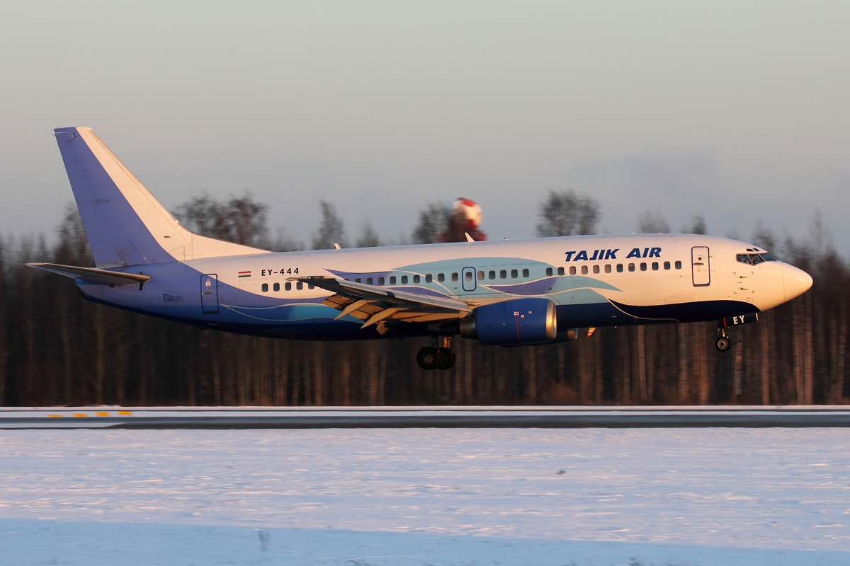 At dawn.